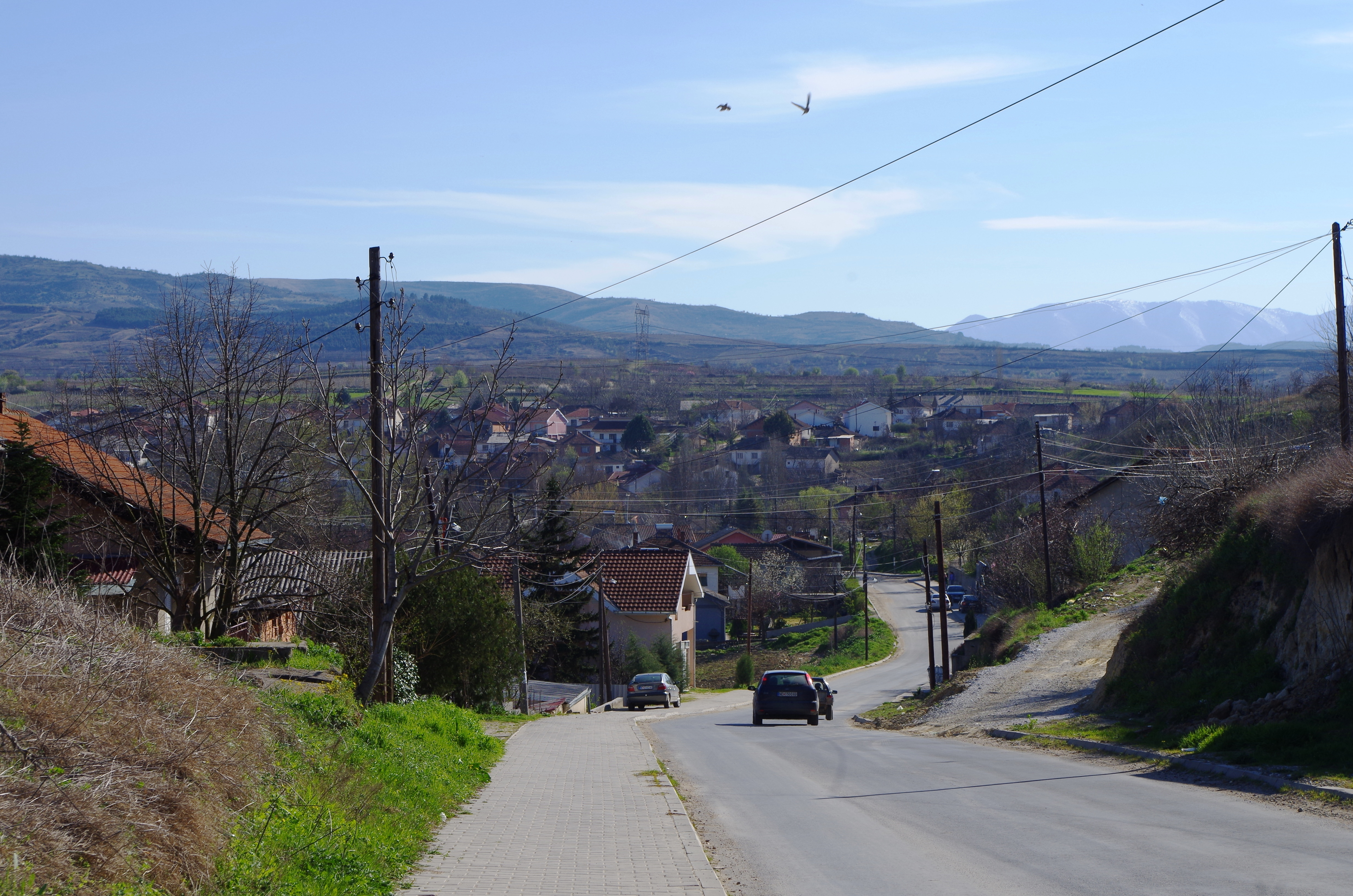 Panorama photo of the village Dolni Disan